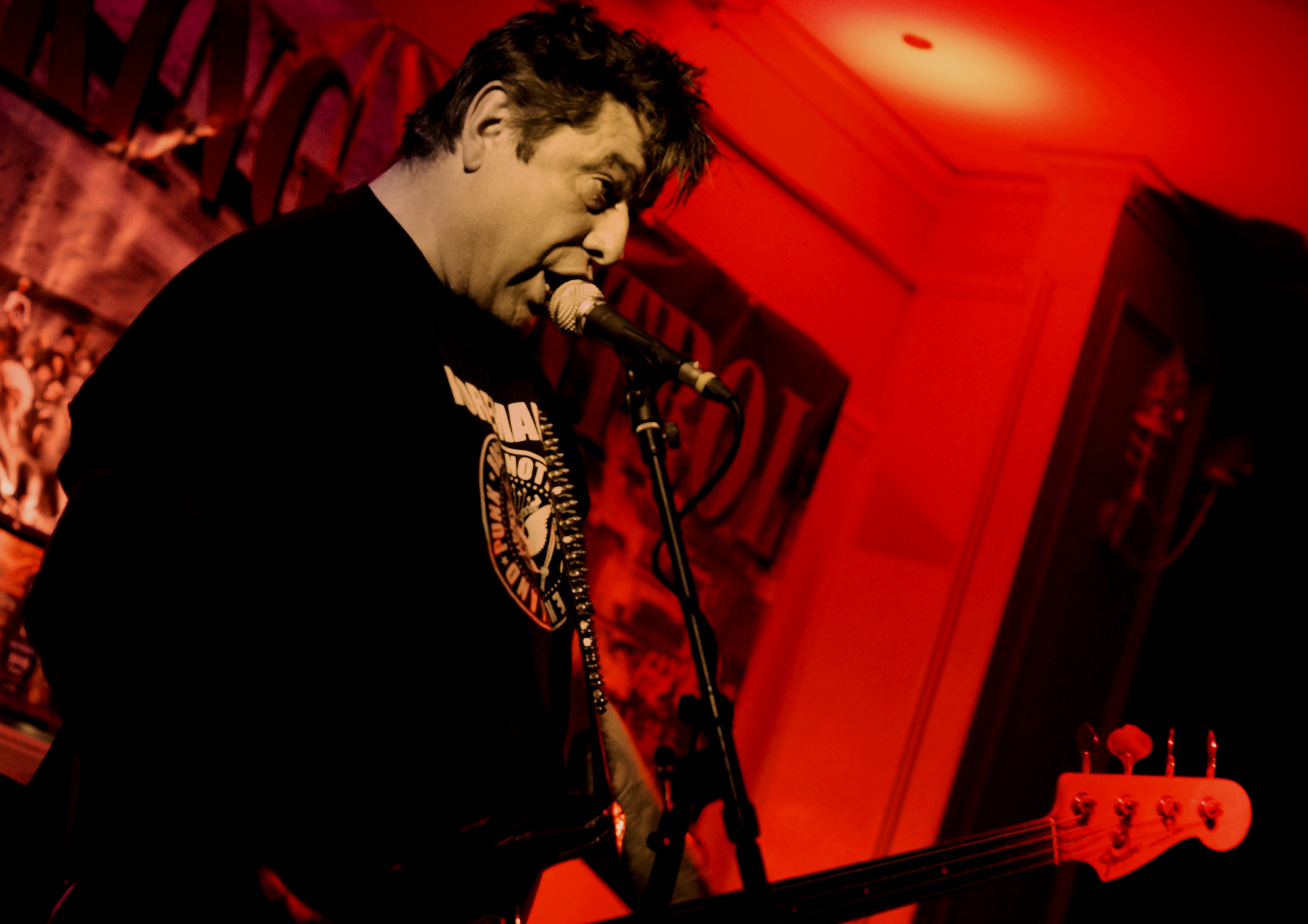 Arturo Bassick, of the Lurkers, performing at BBA Taking Control punk festival, Bangor NI